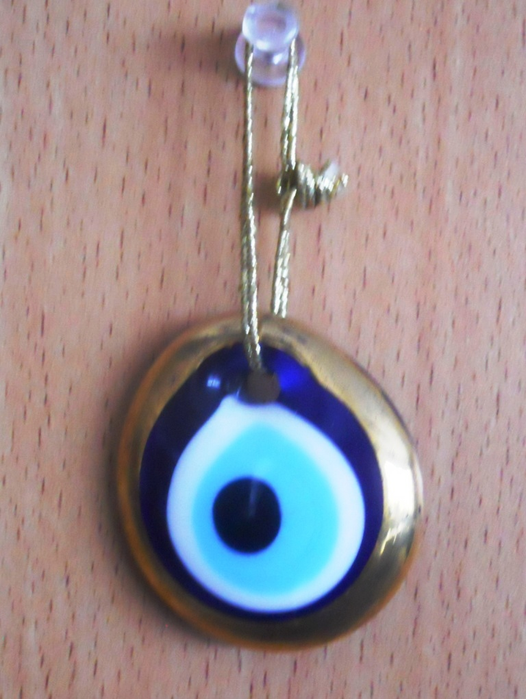 Turkish amulet against "evil eye" (nazarbontchuk)